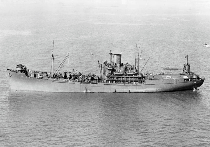 The U.S. Navy seaplane tender USS Chandeleur (AV-10) underway, circa in December 1942.